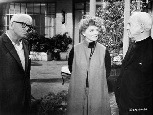 Spencer Tracy & Katharine Hepburn taken for film Guess Who's Coming to Dinner (1967). See also film still. No copyright notice.